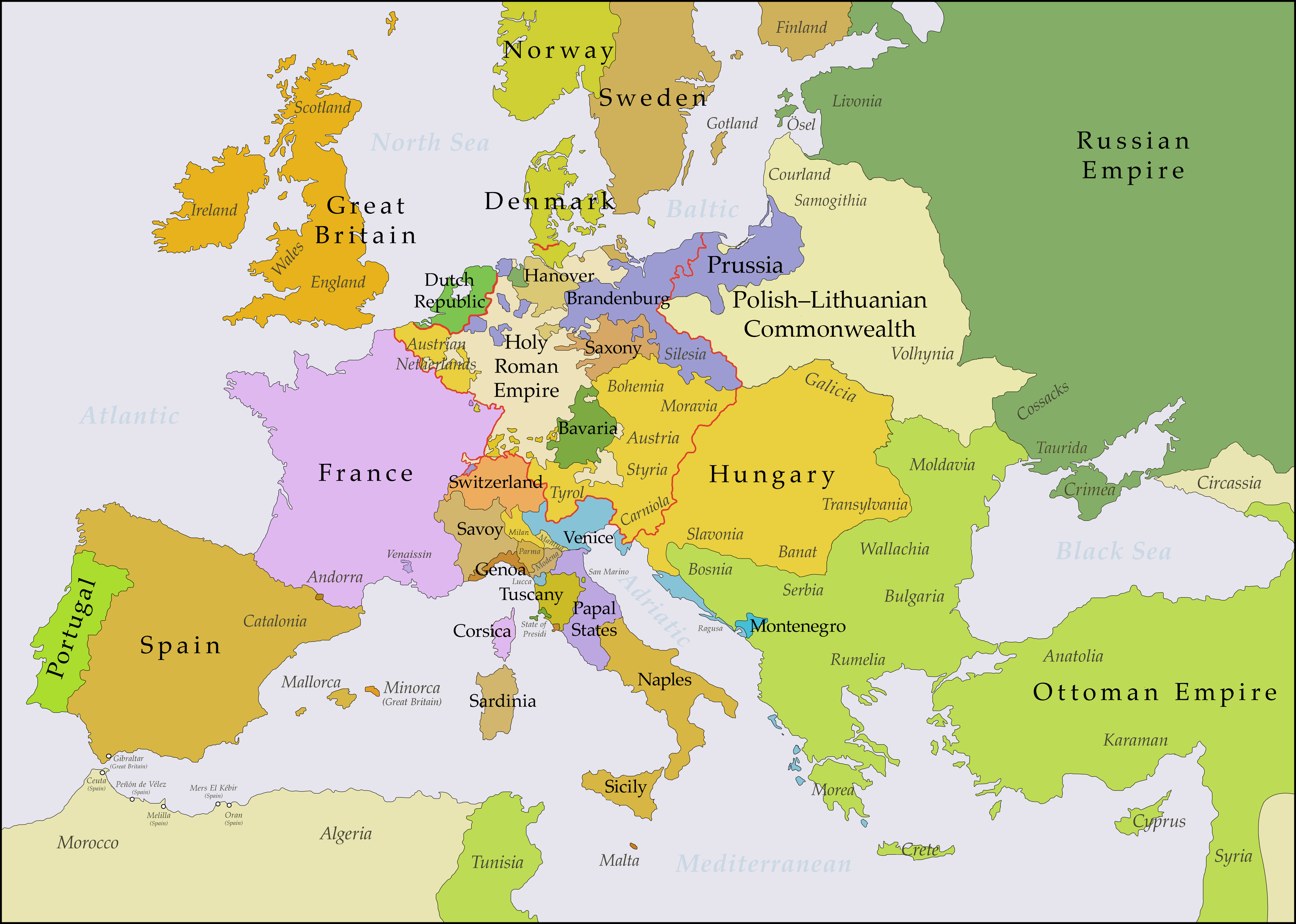 This map shows Europe in the years between the 1783 Russian annexation of Crimea after the Russo-Turkish War of 1768–1774 and the Russian annexation of Yedisan in 1792 at the end of the Russo-Turkish War of 1787–1792. The red line marks the borders of the Holy Roman Empire. The work was created with Inkscape and is mainly based on a map in: Putzger - Historischer Weltatlas, Berlin 1990, 78 pp.